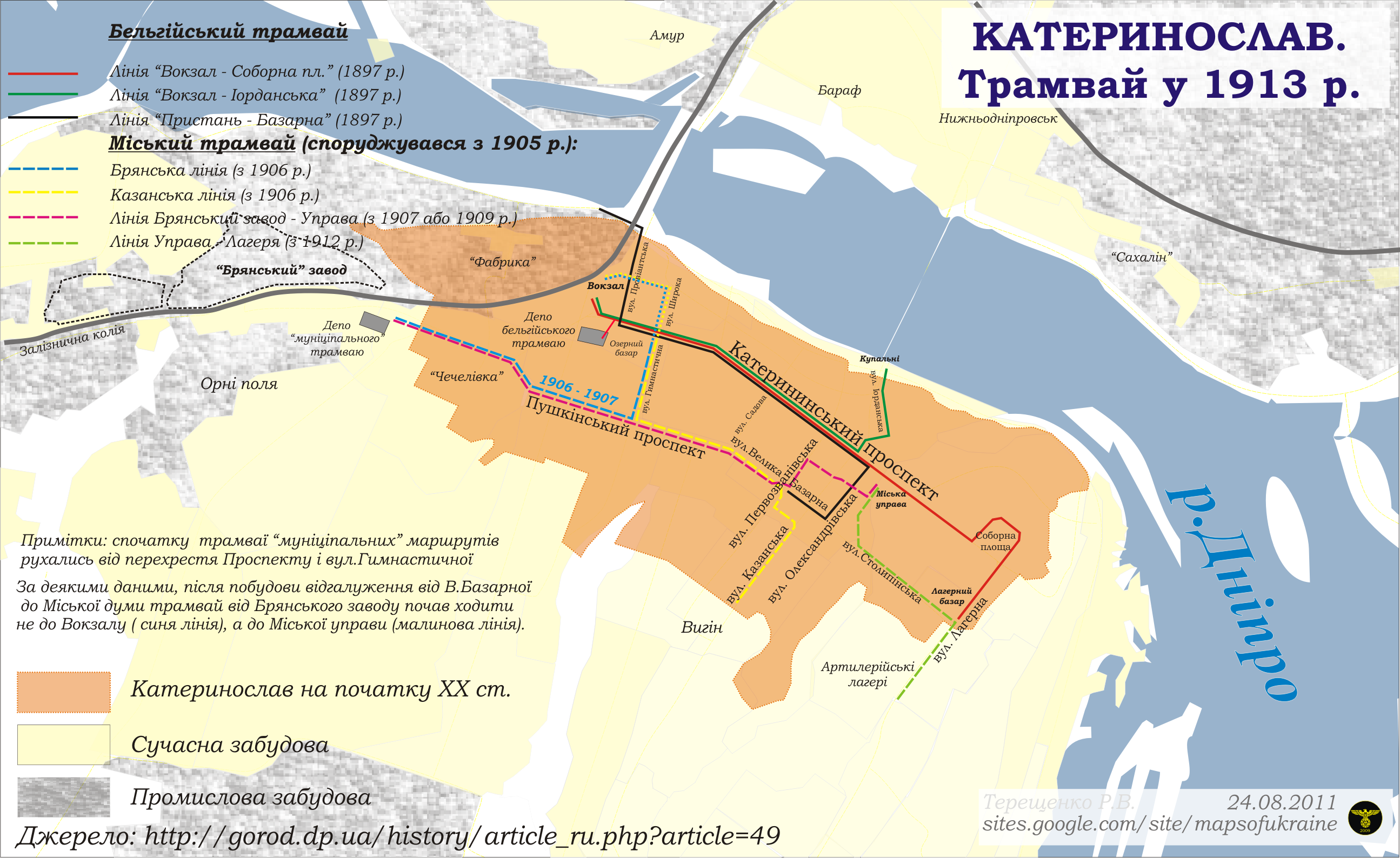 Scheme of tram routes in Katerynoslav in 1913